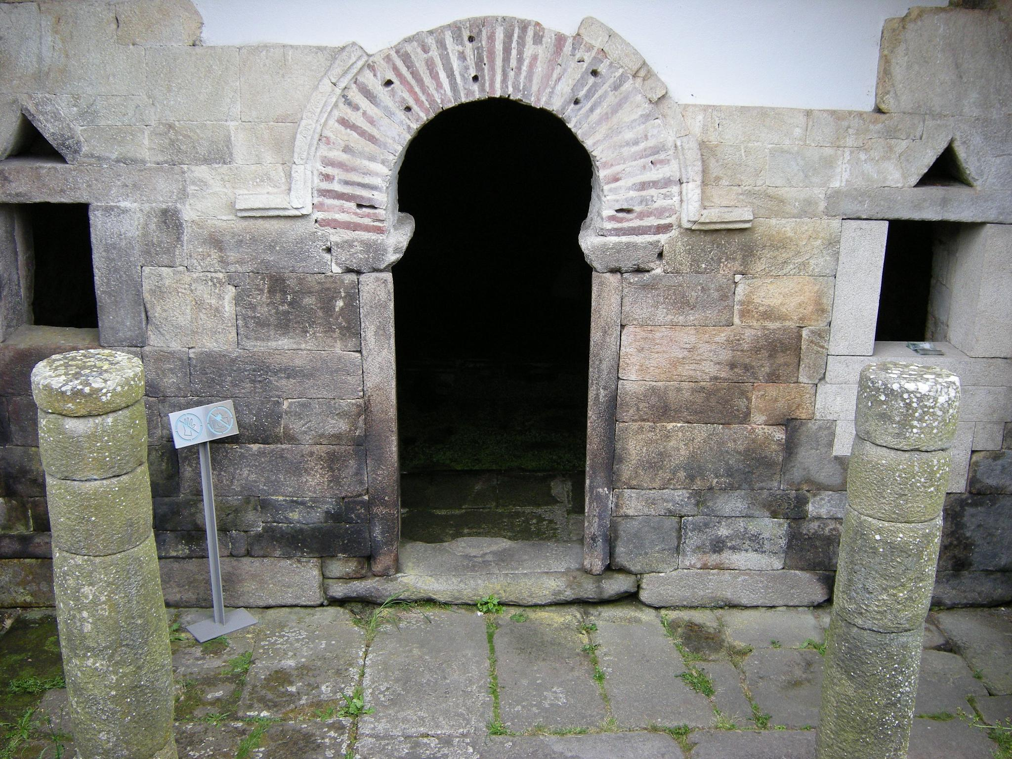 santa eulalia de boveda fachada